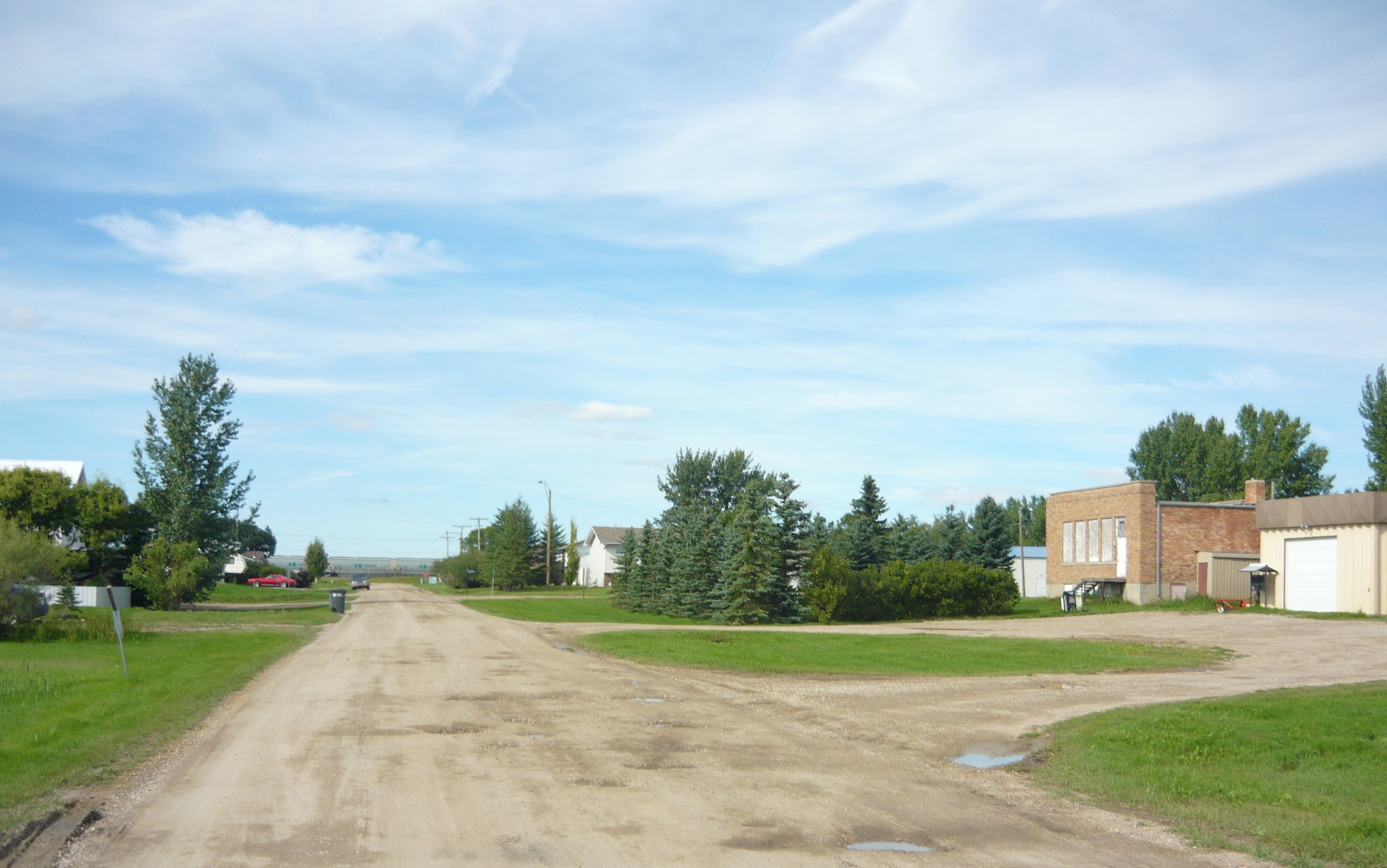 Main Street, Belle Plaine, Saskatchewan, Canada.